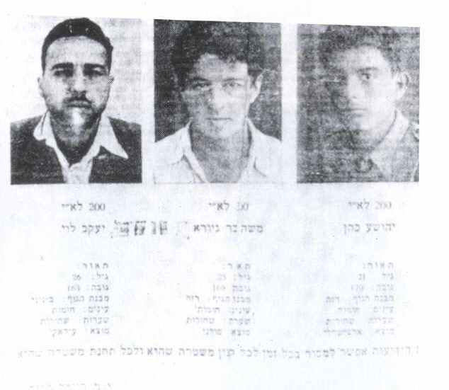 Wanted Poster of the Palestine Police Force offering rewards for the capture of Stern Gang terrorist: Yaacov Levi, Moshe Bar Giora and Yehoshua Cohen